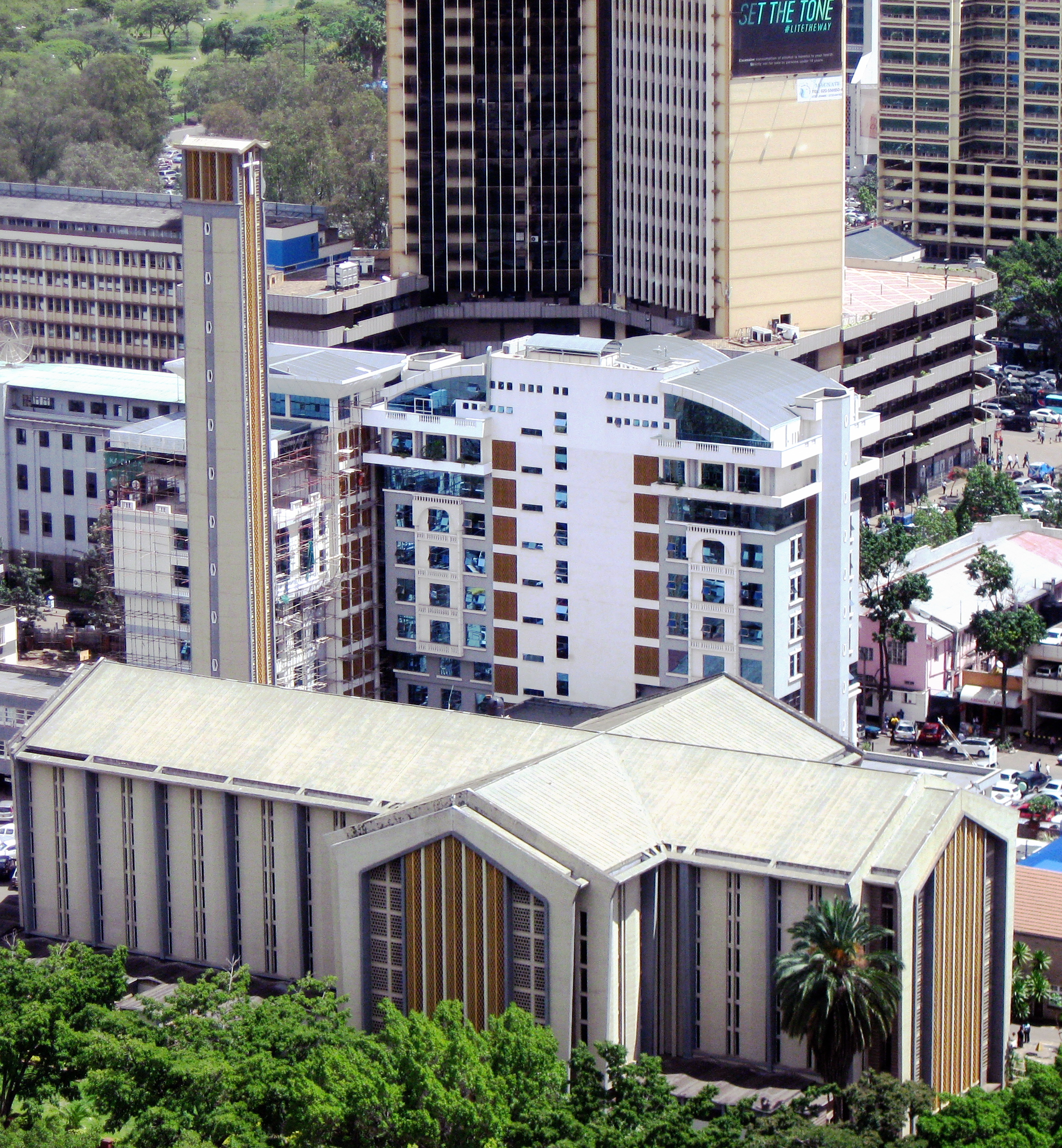 Holy Family Basilica in Nairobi, Kenya - copped version of a file from commons